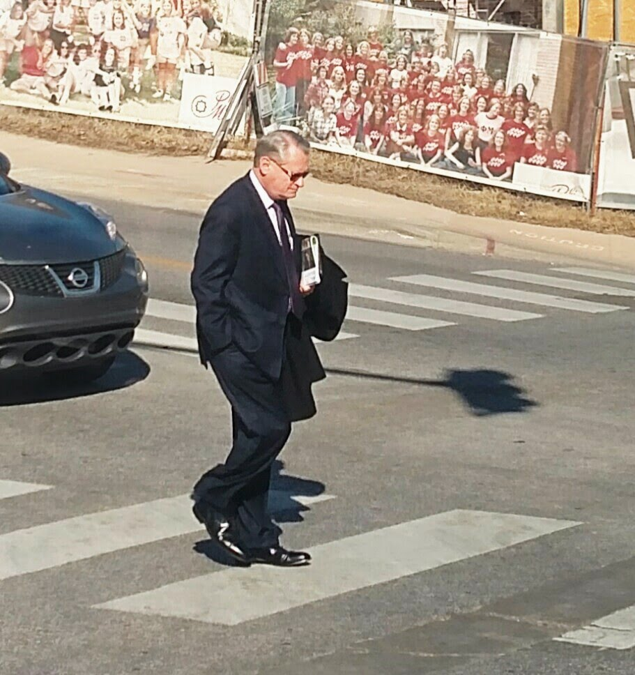 Former University of Arkansas Chancellor G. David Gearhart crosses Maple Street on campus in Fayetteville